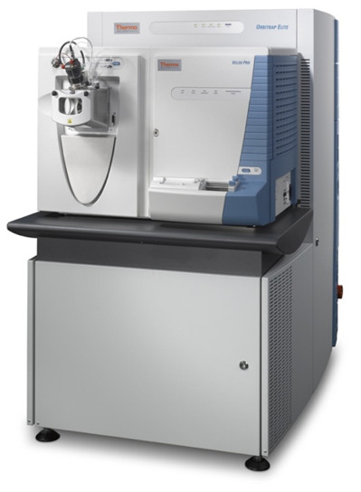 Thermo Scientific Orbitrap Elite Mass Spectrometer